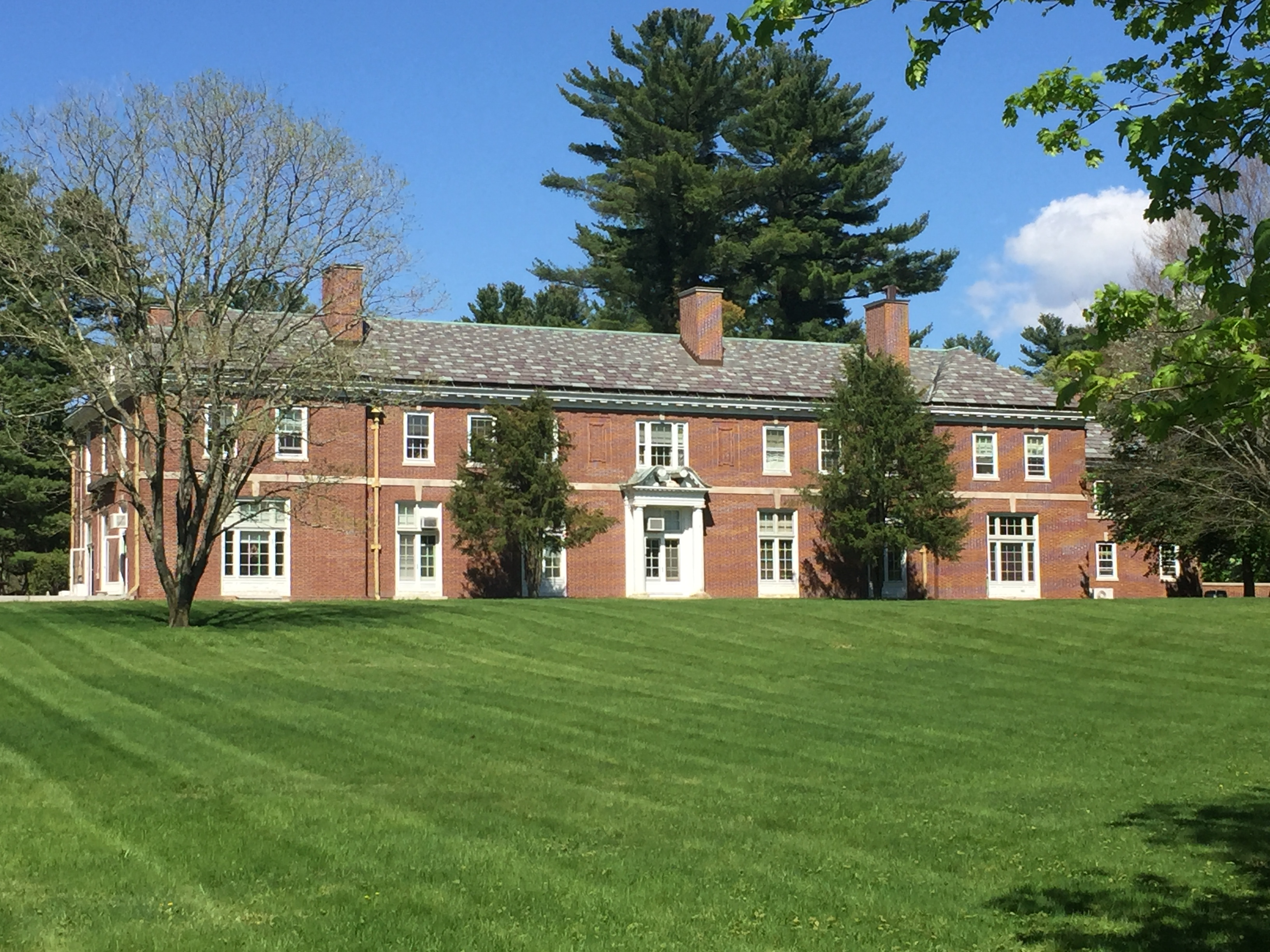 Mary's home, Wayside. The building is now used for Easton town offices.